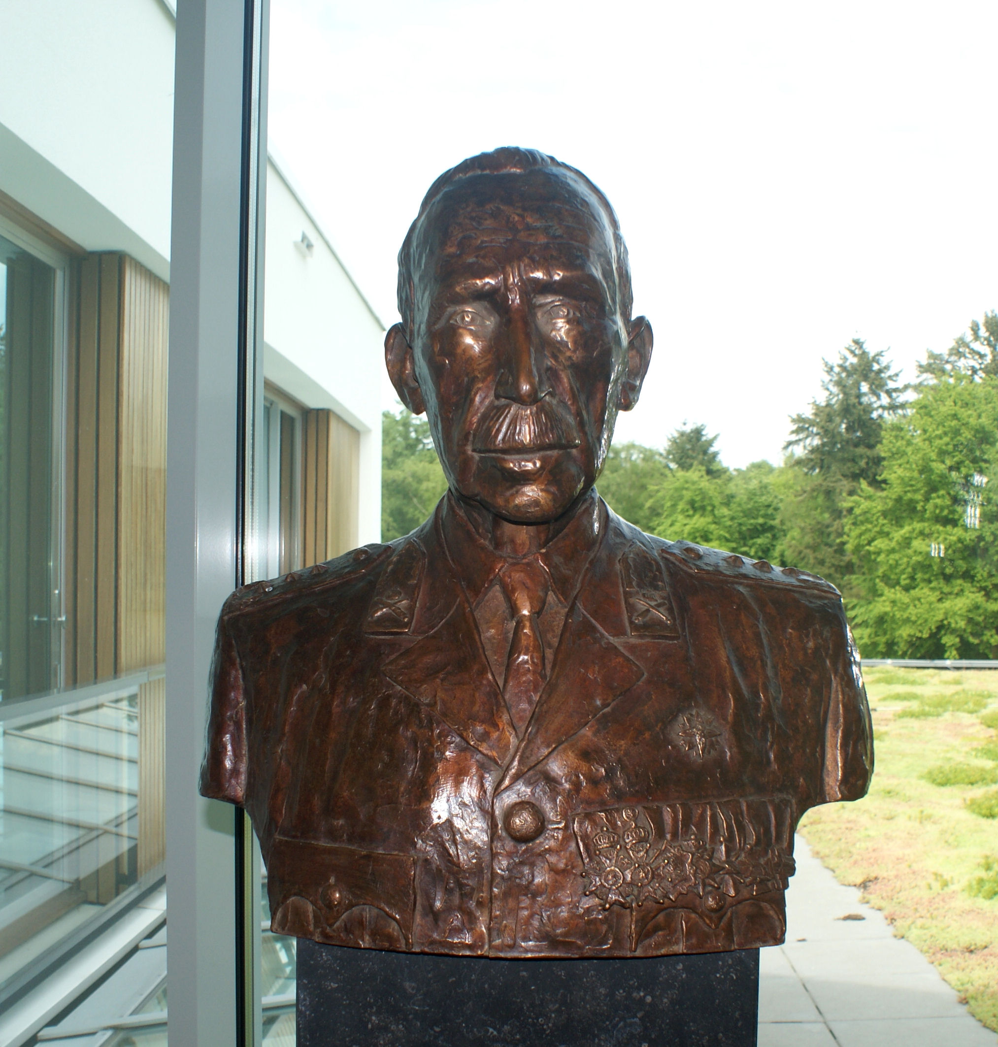 Bust of Lieutenant general Ted Meines, Doorn, Netherlands